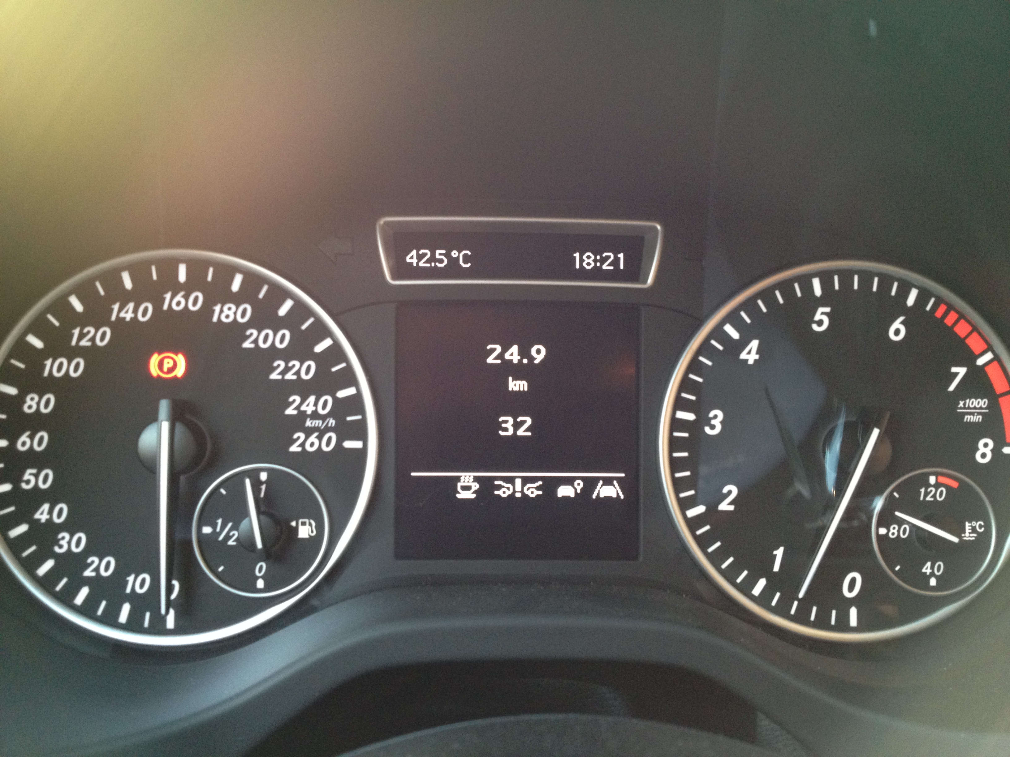 Mercedes A-Class 2012.